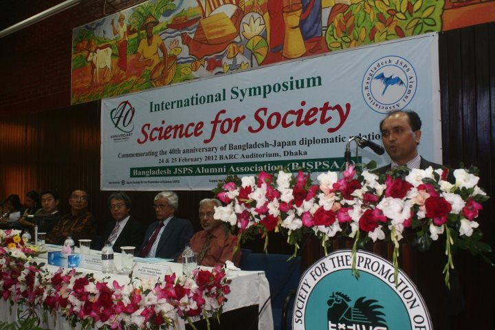 Tofazzal Islam is delivering speech as Secretary of Organizing Committee of BJSPSAA International Symposium on February 24, 2012 in Dhaka, Bangladesh